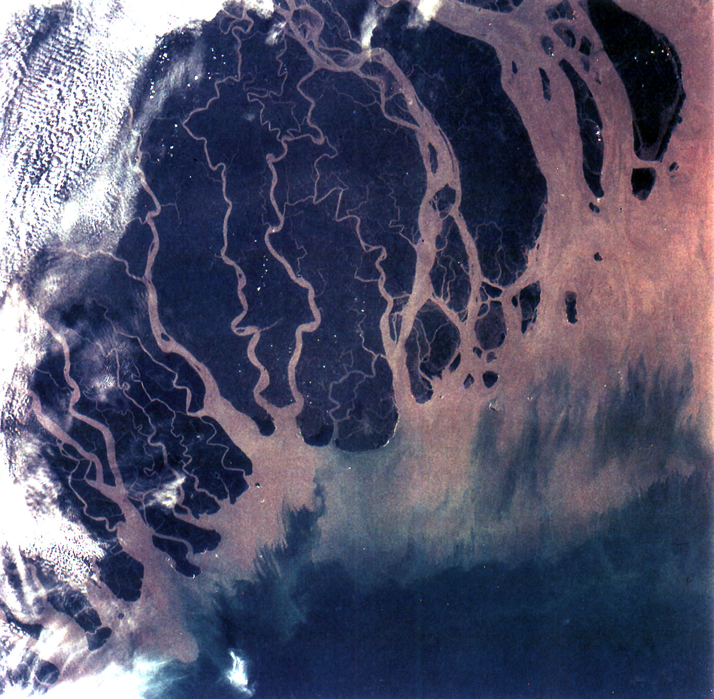 The Ganges River Delta (fig. 5) is the largest inter-tidal delta in the world. With its extensive mangrove mud flats, swamp vegetation and sand dunes, it is characteristic of many tropical and subtropical coasts. The vegetation cushions the shoreline from wind and wave action while the mangrove trees provide a habitat and food for aquatic and terrestrial plant and animal life. The increasing demand for lumber and firewood is outpacing the natural re-growth of the mangrove trees. Space Shuttle photographs, taken over time, permit monitoring of environmental changes in the delta caused by population pressures, and allows mapping of geological changes caused by shifting distributaries and delta growth. As seen in this photograph, the tributaries and distributaries of the Ganges and Brahmaputra Rivers deposit huge amounts of silt and clay that create a shifting maze of waterways and islands in the Bay of Bengal.